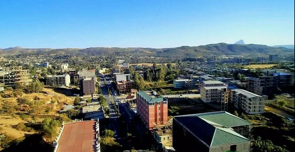 City of Adwa, skyline from Drone camera